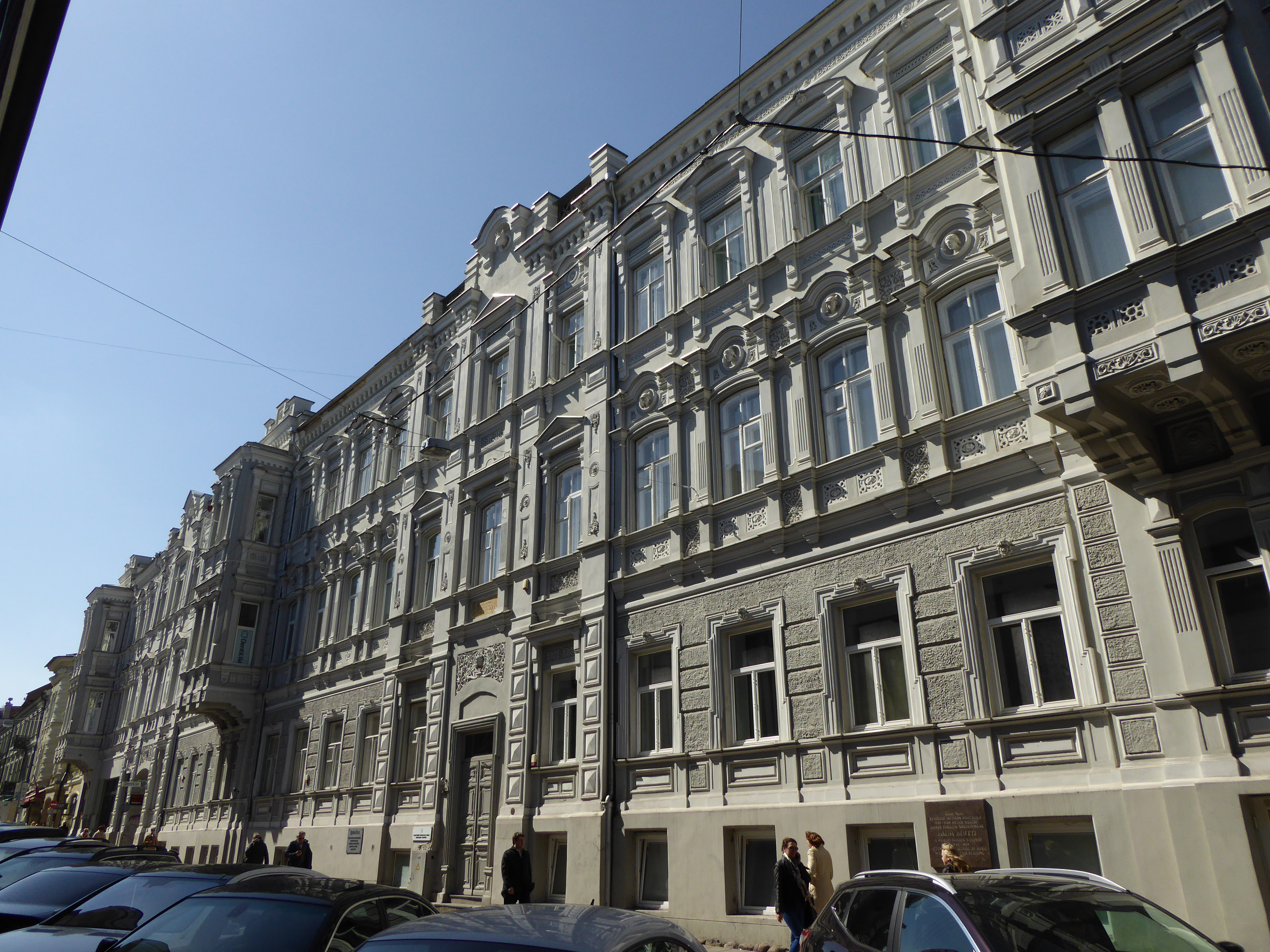 Vilniaus Street, Vilnius, Lithuania, April 2015